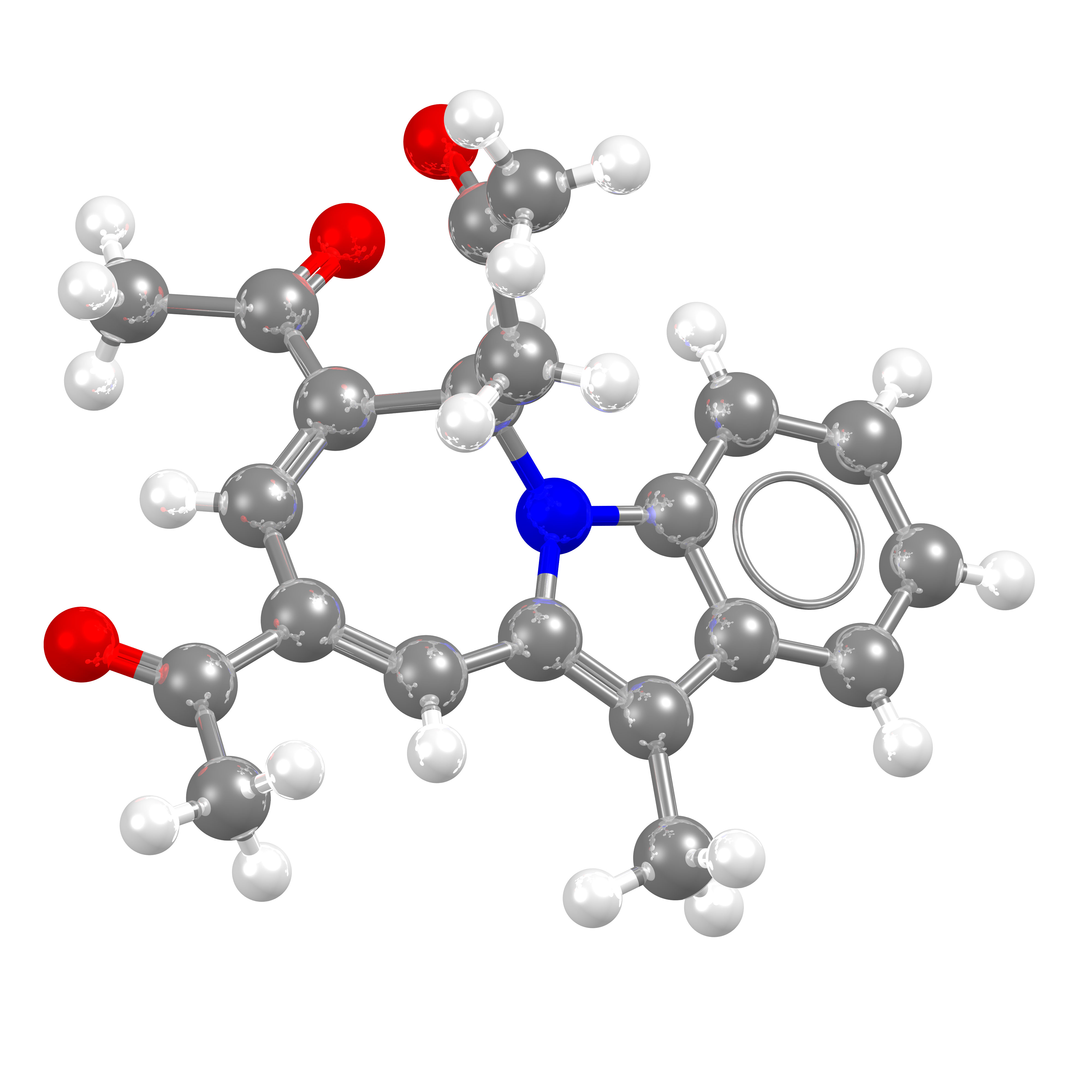 A molecule from the crystal structure of 1-(7,9-diacetyl-11-methyl-6H-azepino[1,2-a]indol-6-yl)propan-2-one, the one millionth structure to be added to the Cambridge Structural Database, with the refcode XOPCAJ (